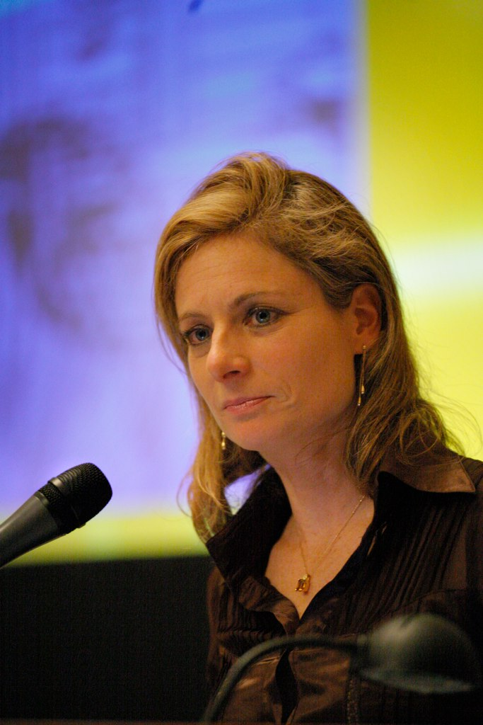 American theoretical physicist Lisa Randall at a conference in 2006. This event was part of the 2006 Festival della Scienza, held annually in Genoa, Italy.